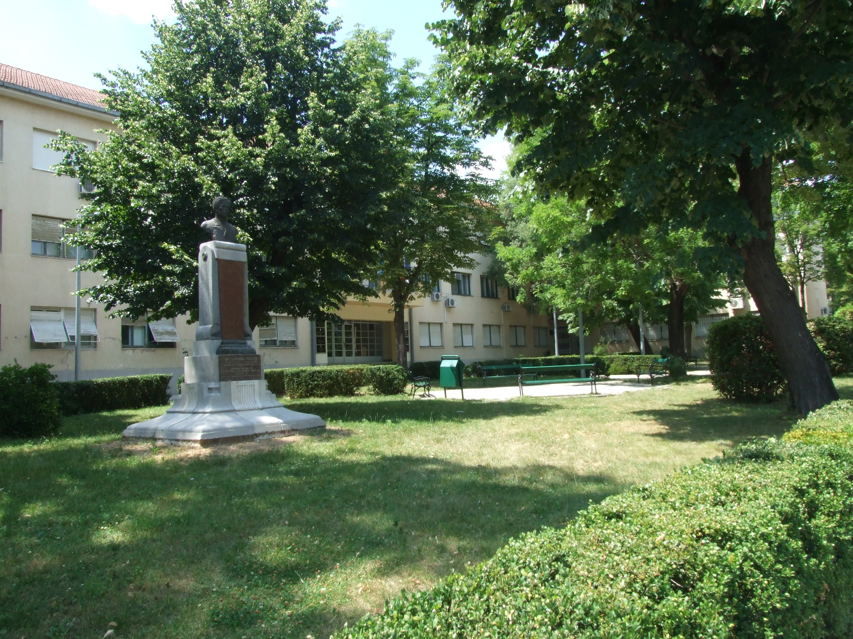 Municipality building in Knin, CroatiaHrvatski: Zgrada općine u Kninu.